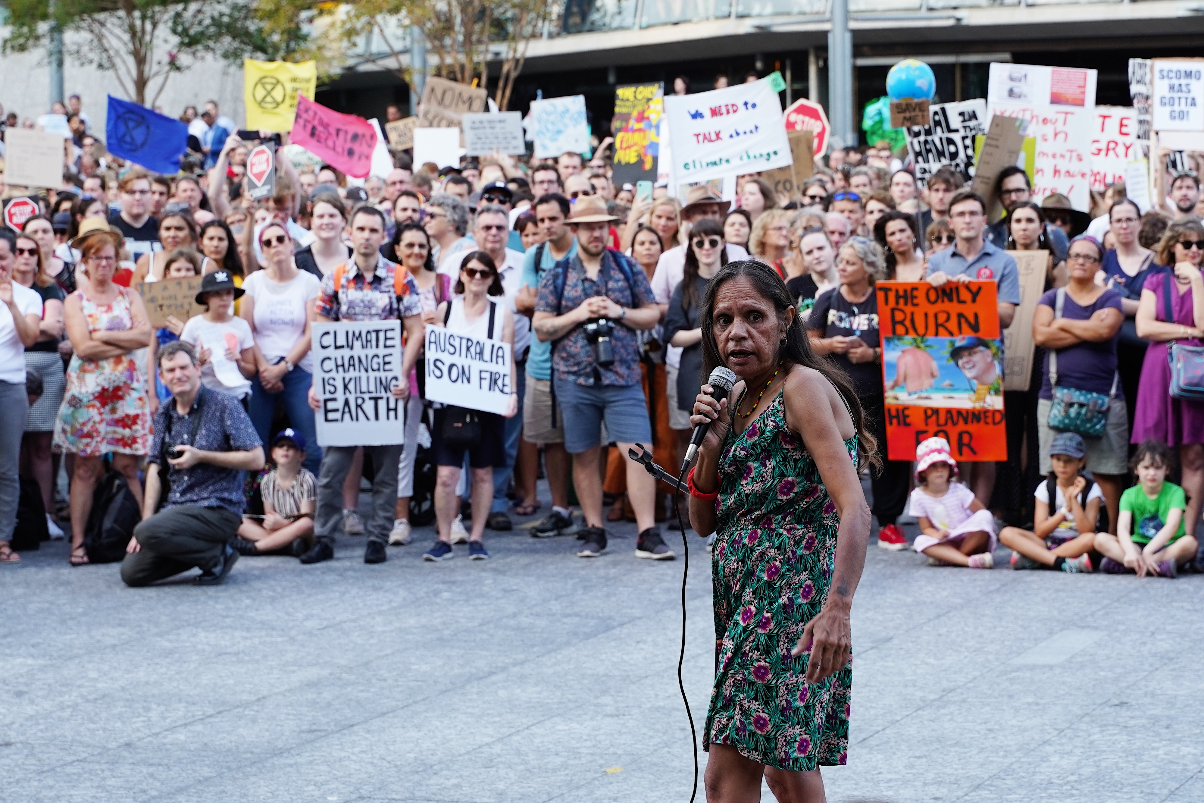 Brisbane Protest: Sack Scomo! Fund Firies! Climate Action Now!